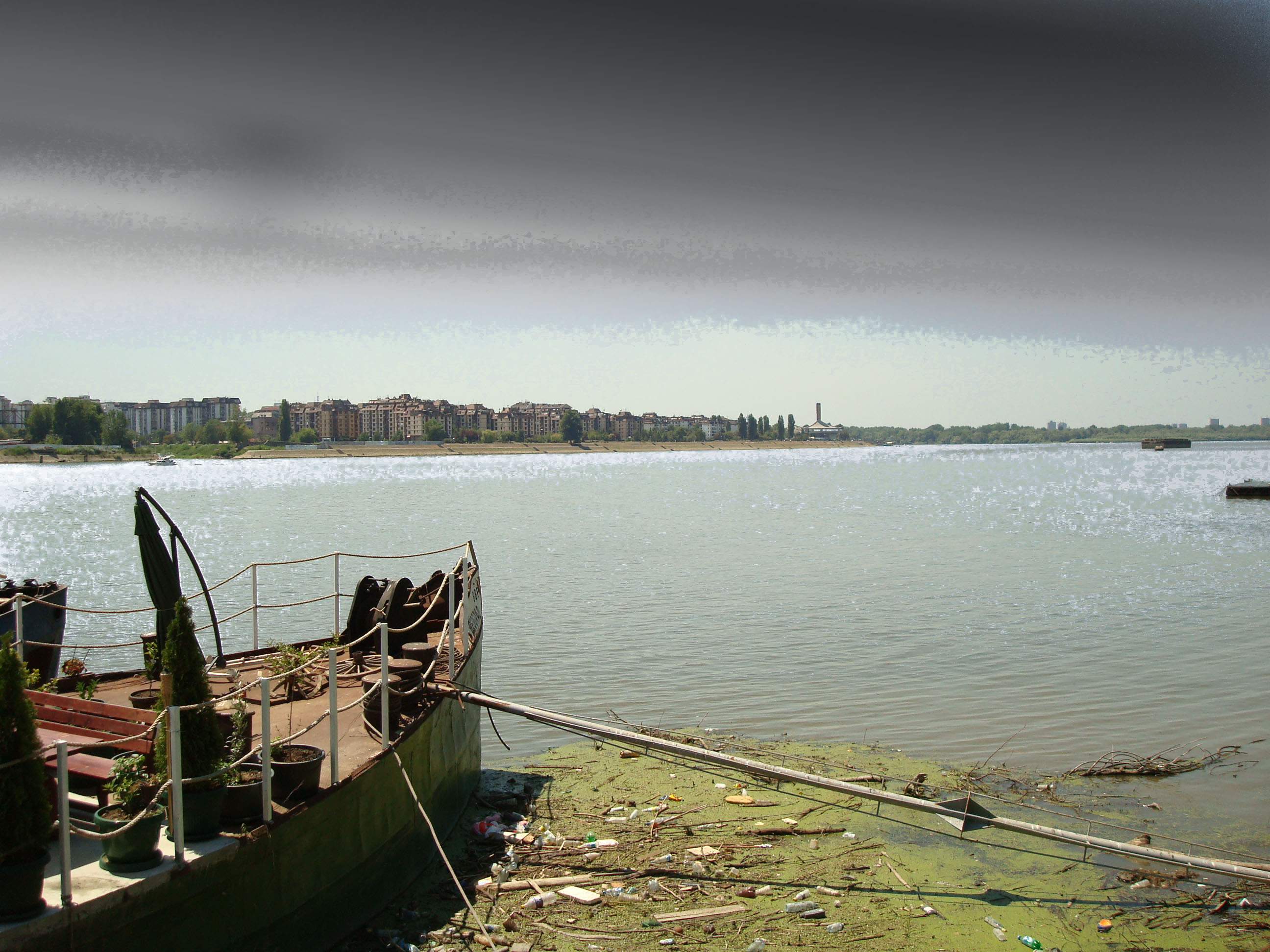 enDanube river at , neighborhood of , Serbia/Le à , quartier de , Serbie